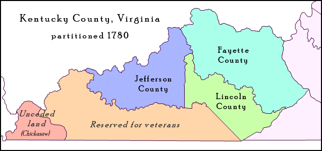 Map of Trans-Appalachian Virginia as it was as of mid-1780. On June 30, 1780, the Commonwealth of Virginia subdivided its Kentucky County into three new counties – Fayette, Jefferson, and Lincoln, and two unincorporated areas – one reserverd for Revolutionary War veterans and the other reserved for the Chickasaw Indians.